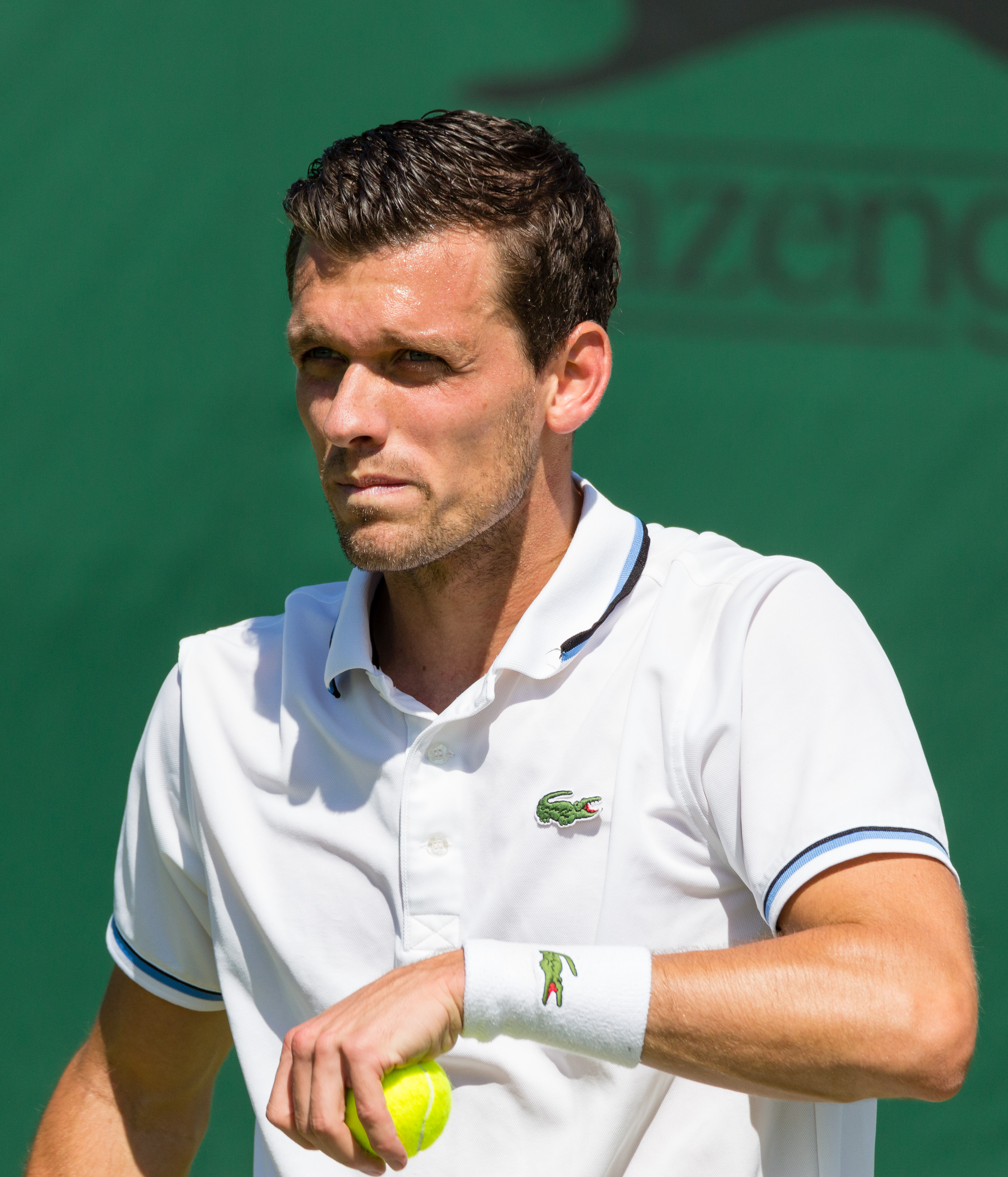 Tobias Kamke competing in the first round of the 2015 Wimbledon Qualifying Tournament at the Bank of England Sports Grounds in Roehampton, England. The winners of three rounds of competition qualify for the main draw of Wimbledon the following week.